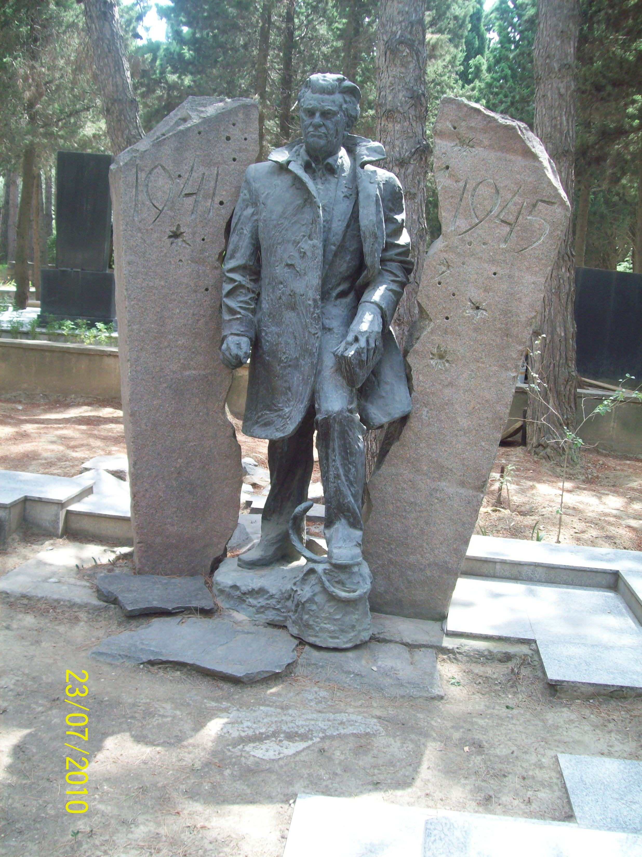 Ziya Bunyadov's burying place in Fakhri Khiyaban in 23 July 2010